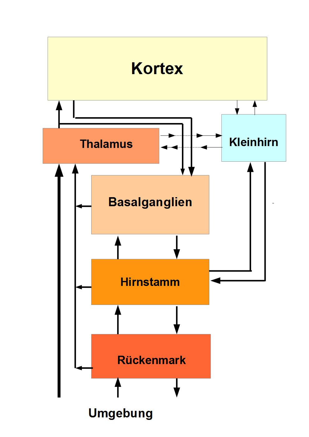 Structure of the brain with of those parts that are involved in motor control